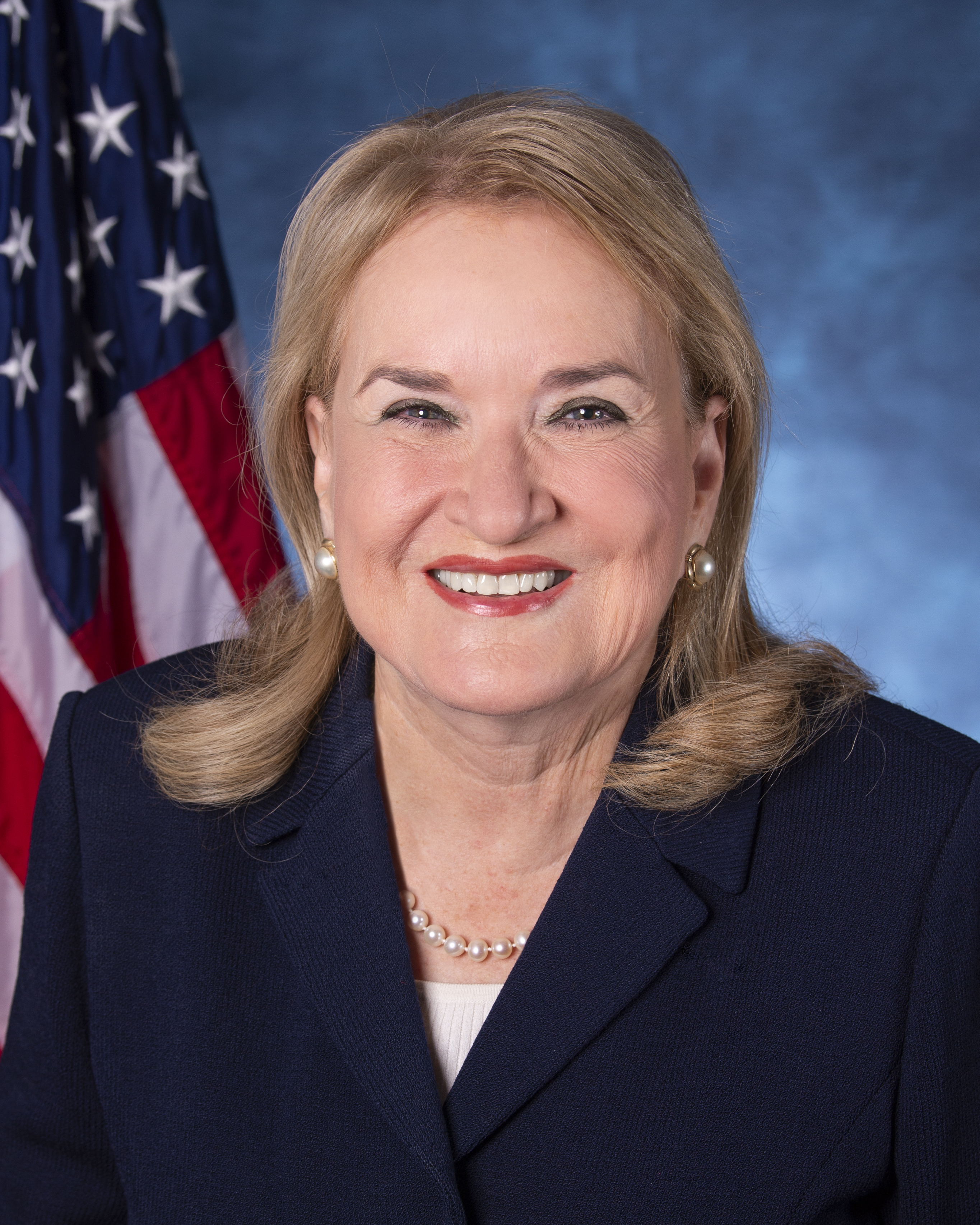 The official headshot of Rep. Sylvia Garcia (D-TX)